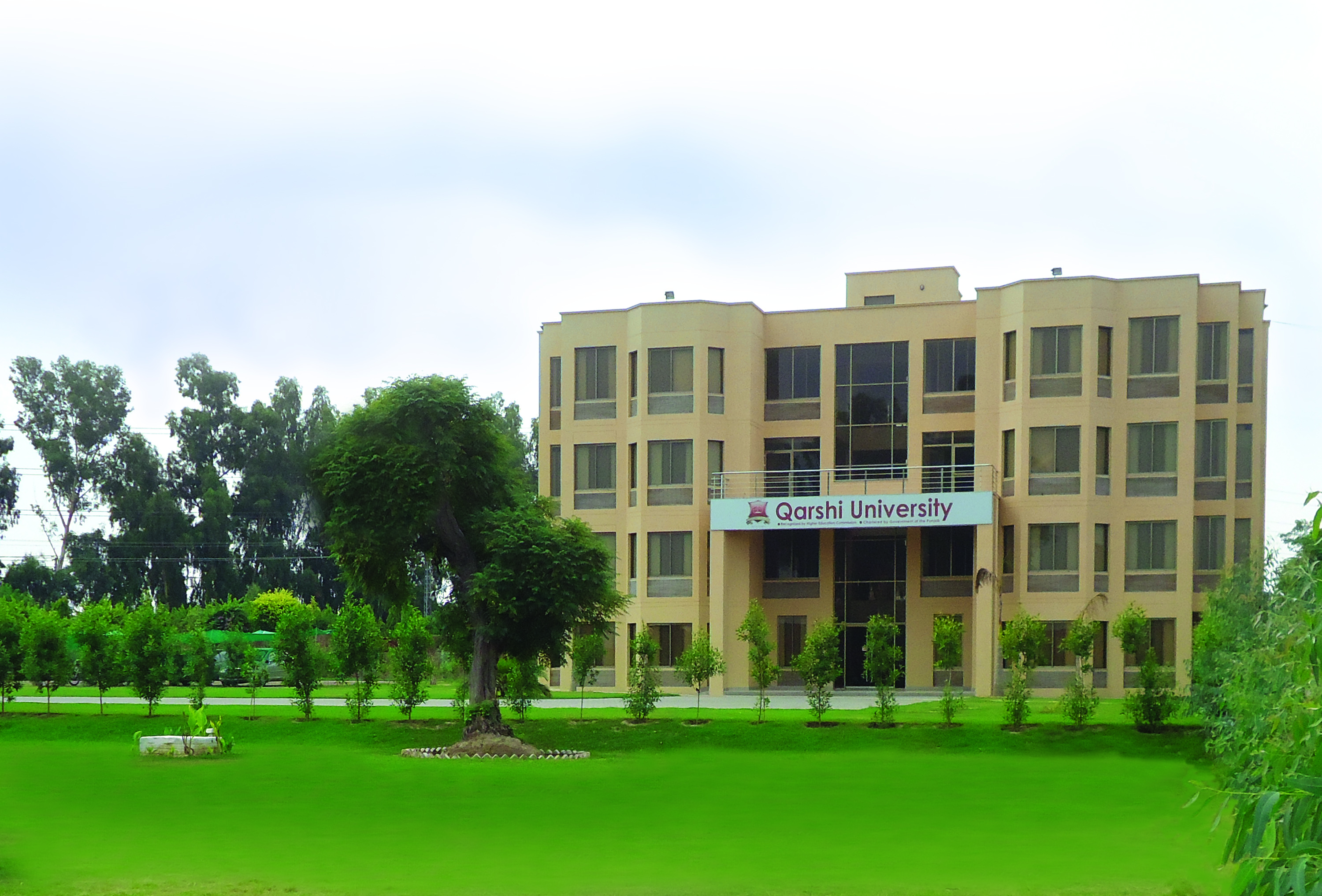 Qarshi University-Canal Campus